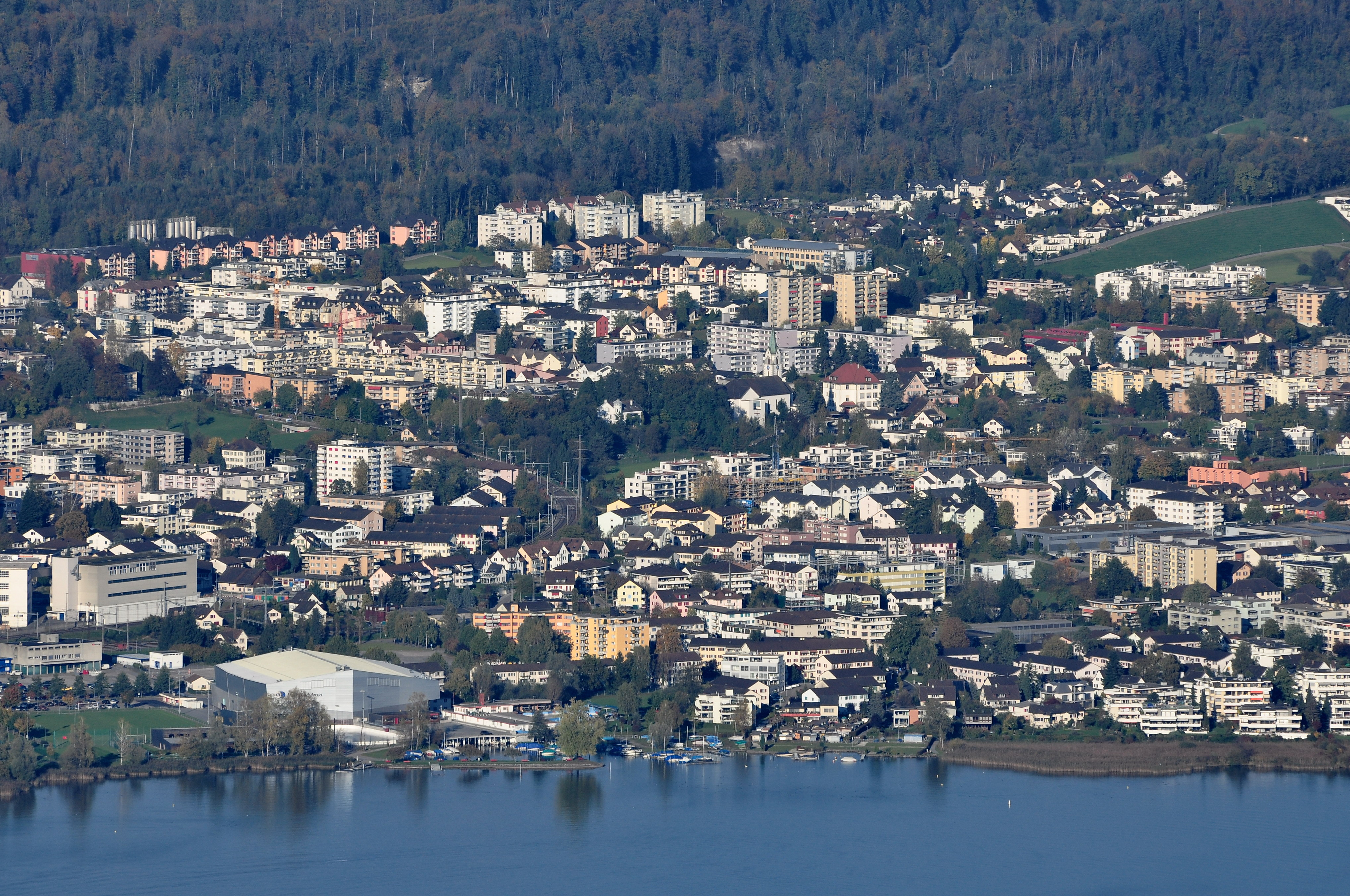 Jona on Obersee lakeshore, as seen from Etzel mountain (Switzerland), Rapperswil to the left.